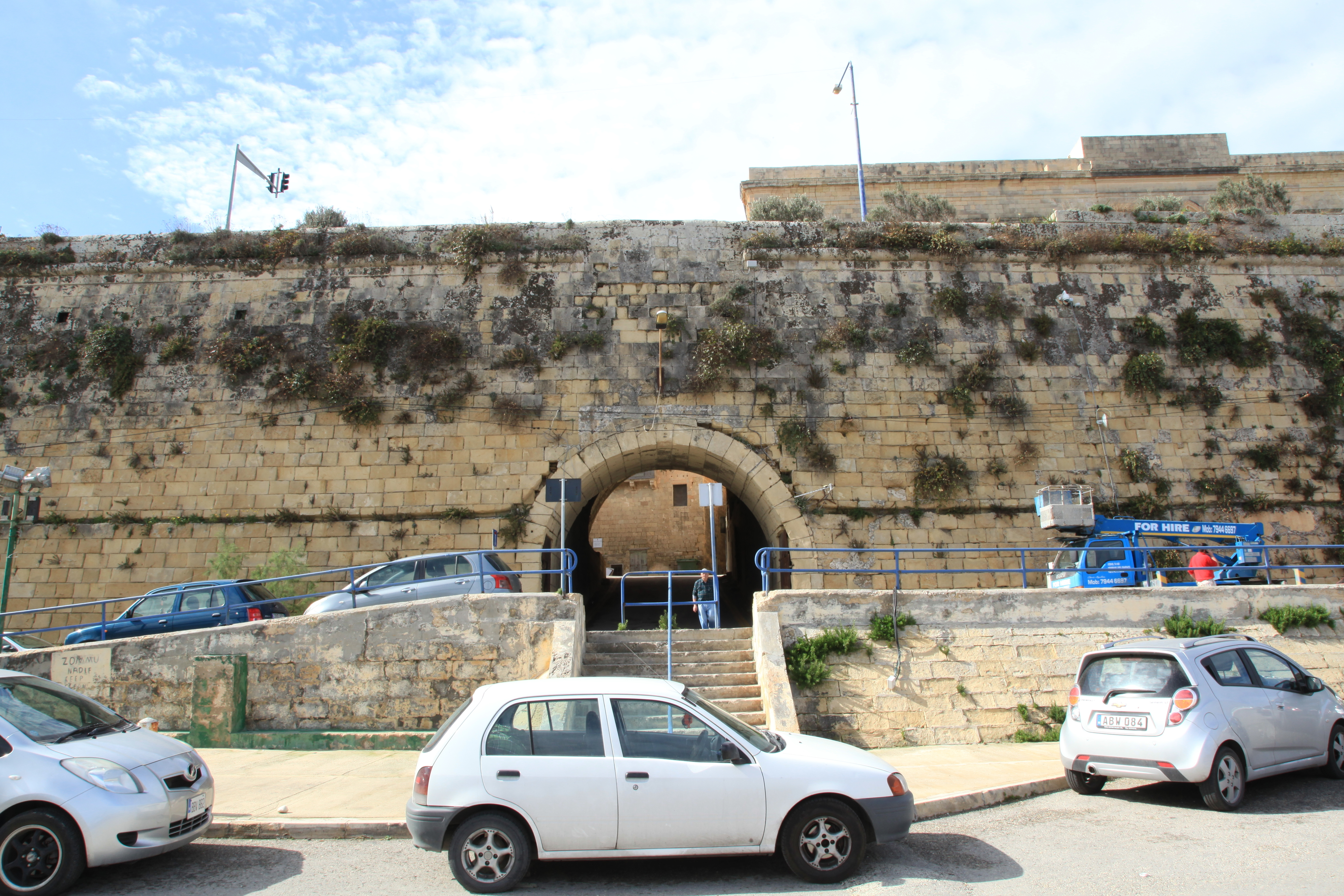 Jews' Sally Port, Triq il-Lanċa in Valletta, Malta